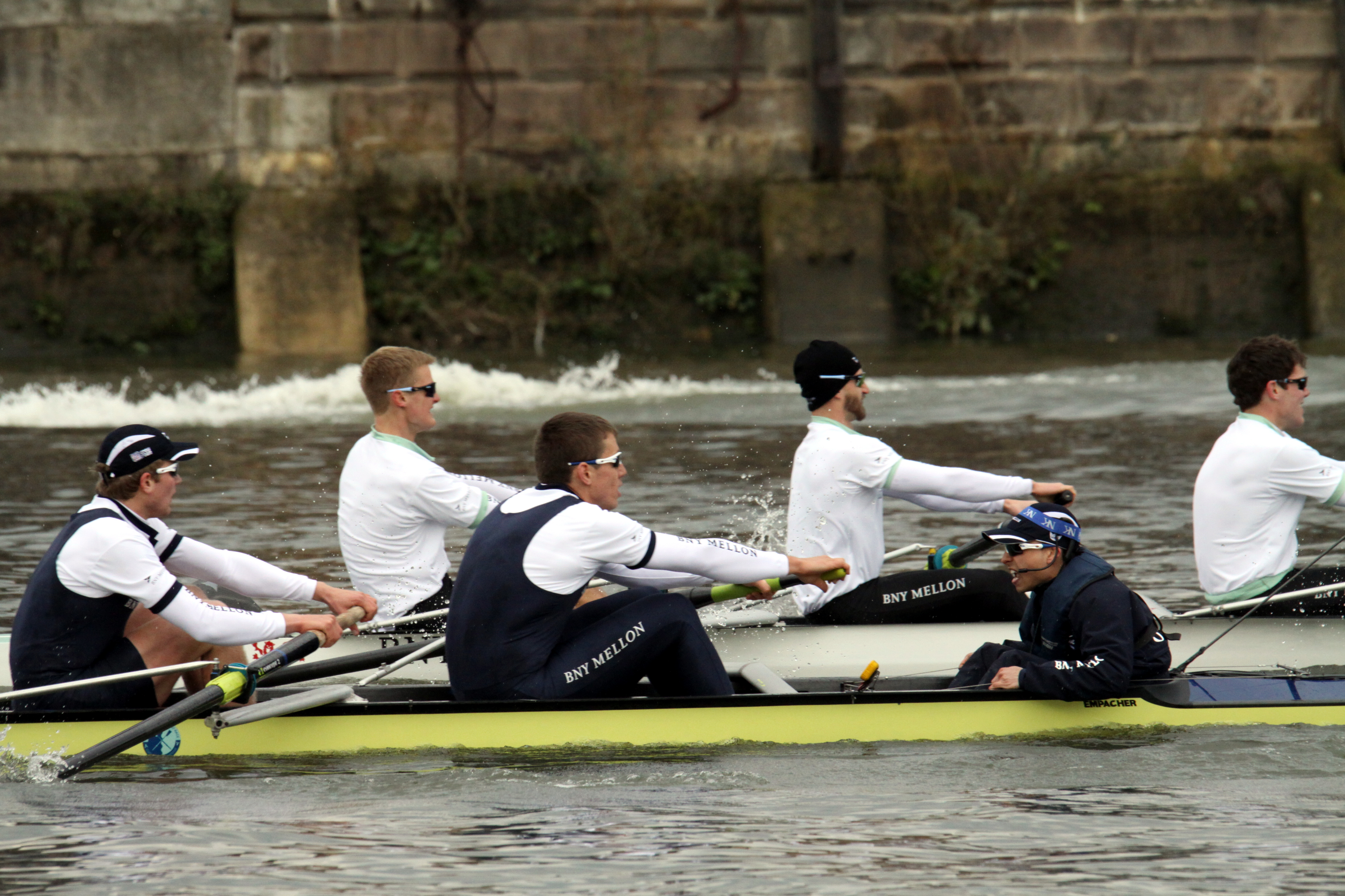 Race between Oxford (dark blue dresses) and Cambridge (white dresses) during the Boat Race on River Thames, England, Great Britain.